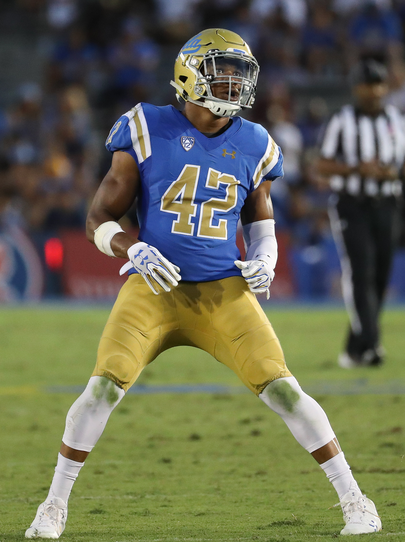 UCLA Bruins linebacker Kenny Young (42)